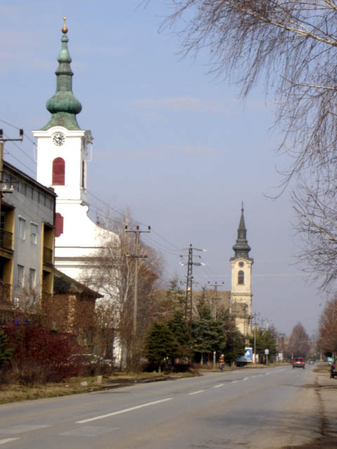 The Calvinist and the abandoned Lutheran (German) Church in Feketić/Bácsfeketehegy, Vojvodina, Serbia